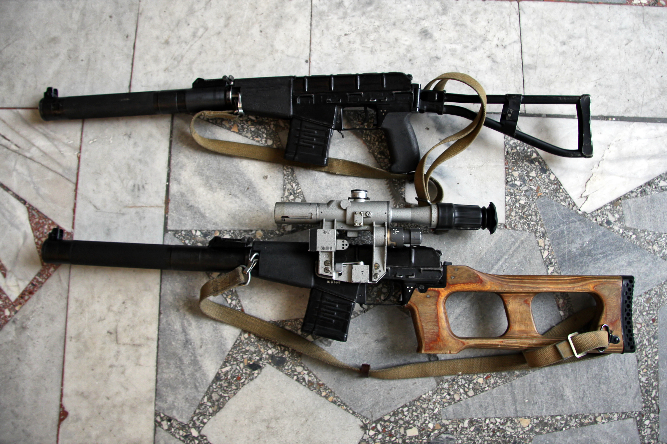 VSS Vintorez and AS Val in Conscript day in Moscow 2011